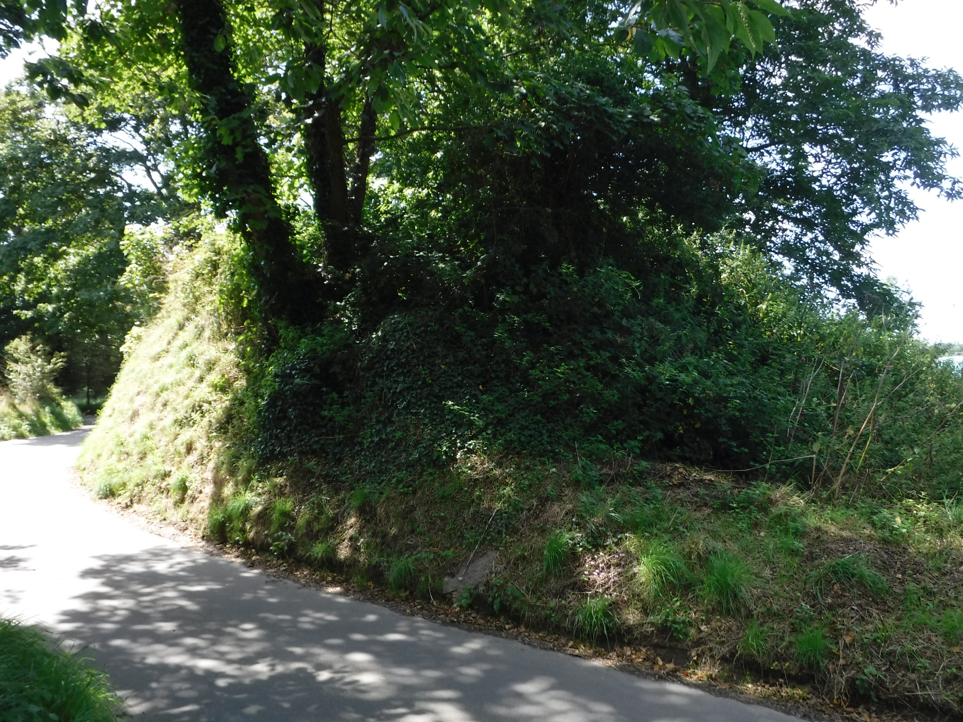 La Hougue Boëte in St. John at Jersey. Closed Chamber. Neolithic. 4.5m high oval mound in which a four sided chamber was found 1911